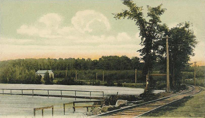 Maranacook Lake from Green Street, Winthrop, ME; from a c. 1905 postcard published by G. W. Morris, Portland, Maine.